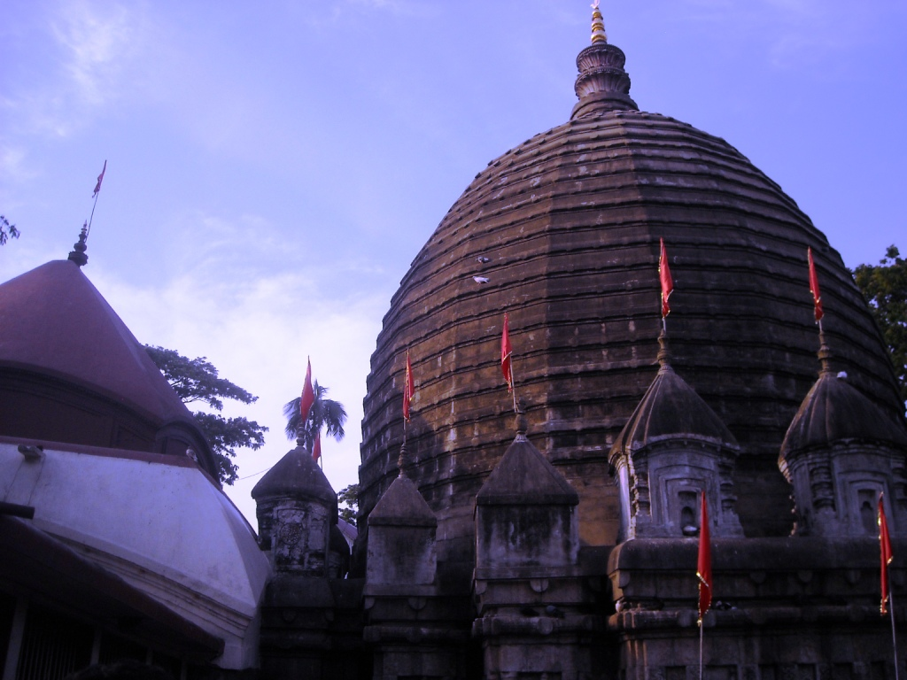 The Kamakhya Temple is a Shakti Peeth temple situated on the Nilachal Hill in western part of Guwahati city in Assam, India. This picture shows the main dome of the temple.